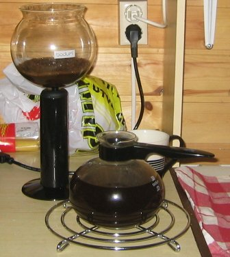 A bodum vacuum brewer disassembled.